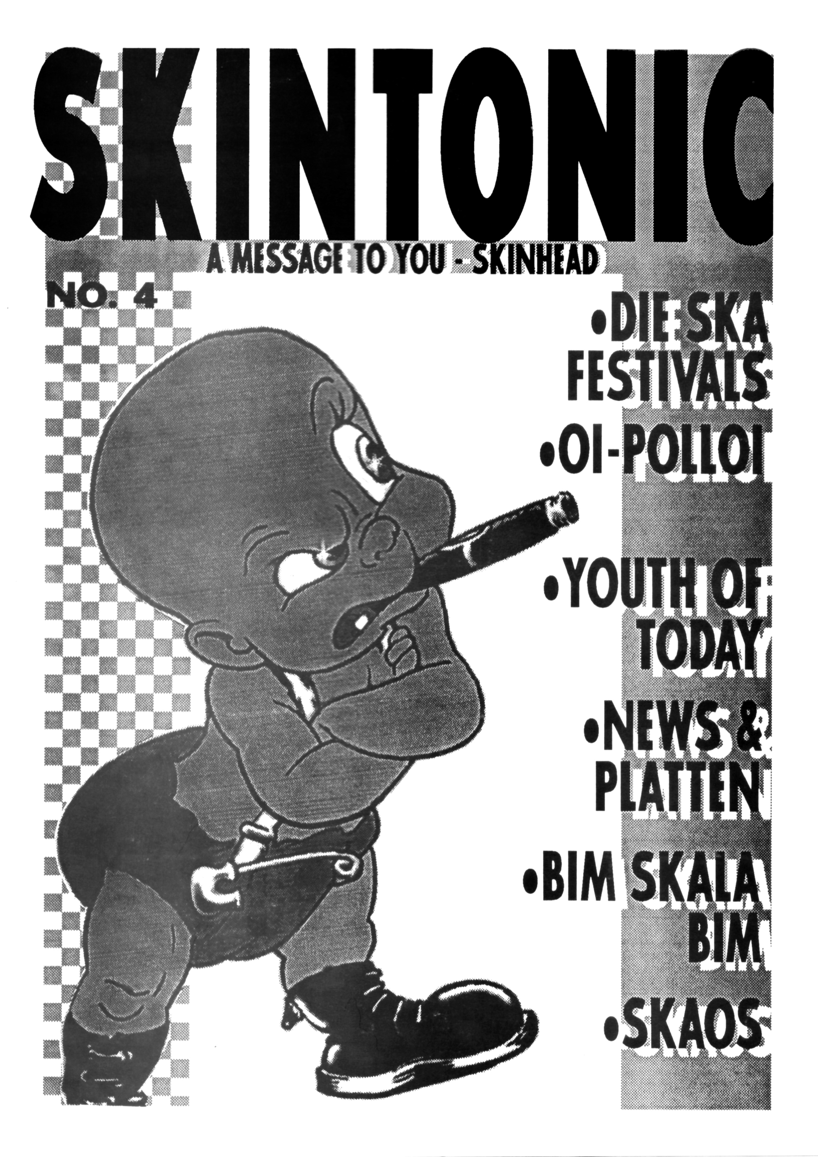 Die 1989 erschienne vierte Ausgabe des antirassistischen Skinhead Fanzines Skintonic.